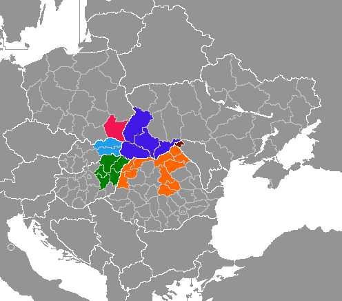 Position of Carpathian Euroregion within Europe